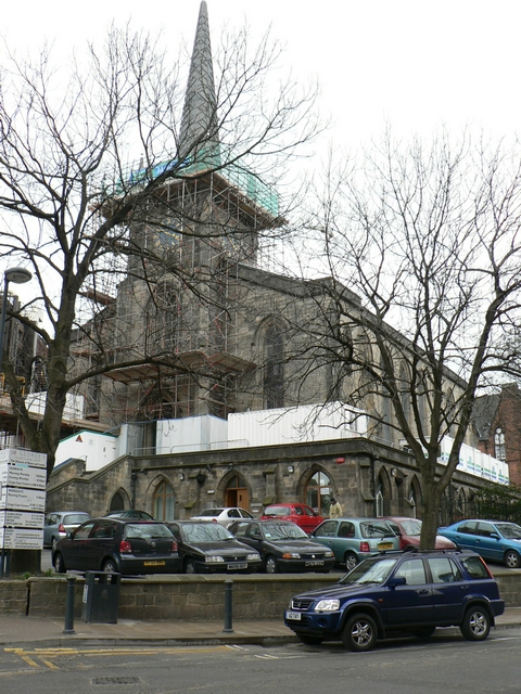 St George's parish church, Great George Street, Leeds, West Yorkshire, seen from the southwest. St George's church was built with a spire and four pinnacles around its base. In 1962 a storm damaged the spire and some of the pinnacles fell through the church roof. The spire was demolished as the parish did not have the funds to repair both it and roof. A new spire was built in 2006, funded by the developers of a block of apartments next to the church. (Apparently it was a condition of planning permission.) This picture is an attempt to recreate an old picture on the Leodis website which includes the original spire. However, the Centaur building was built later, and foiled this plan. This picture was taken with the photographer's back against the Centaur building. The original spire was taller than its replacement. See the picture on Leodis here